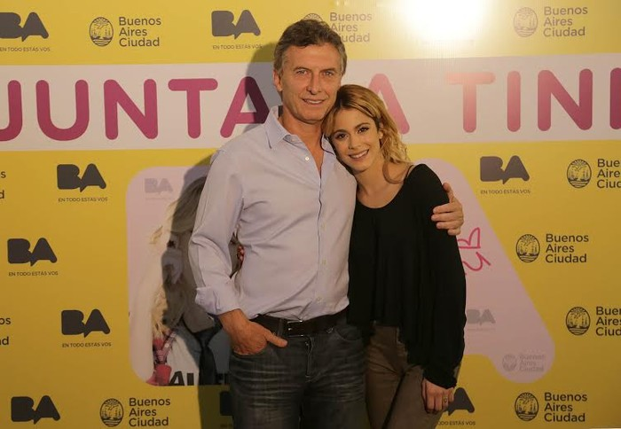 The Chief of Government of Buenos Aires, Mauricio Macri, with singer and actress Martina Stoessel before the free live performance given by the artist on May 2, 2014 in Buenos Aires.